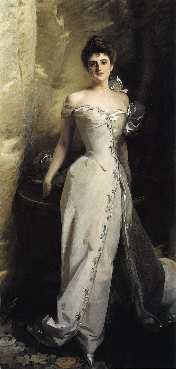 Mrs Ralph Curtis (Lisa de Wolfe Colt) John Singer Sargent -- American painter 1898 Cleveland Museum of Art, Ohio Oil on canvas Size? Jpg: Friend of the JSS Gallery / The Athenaeum